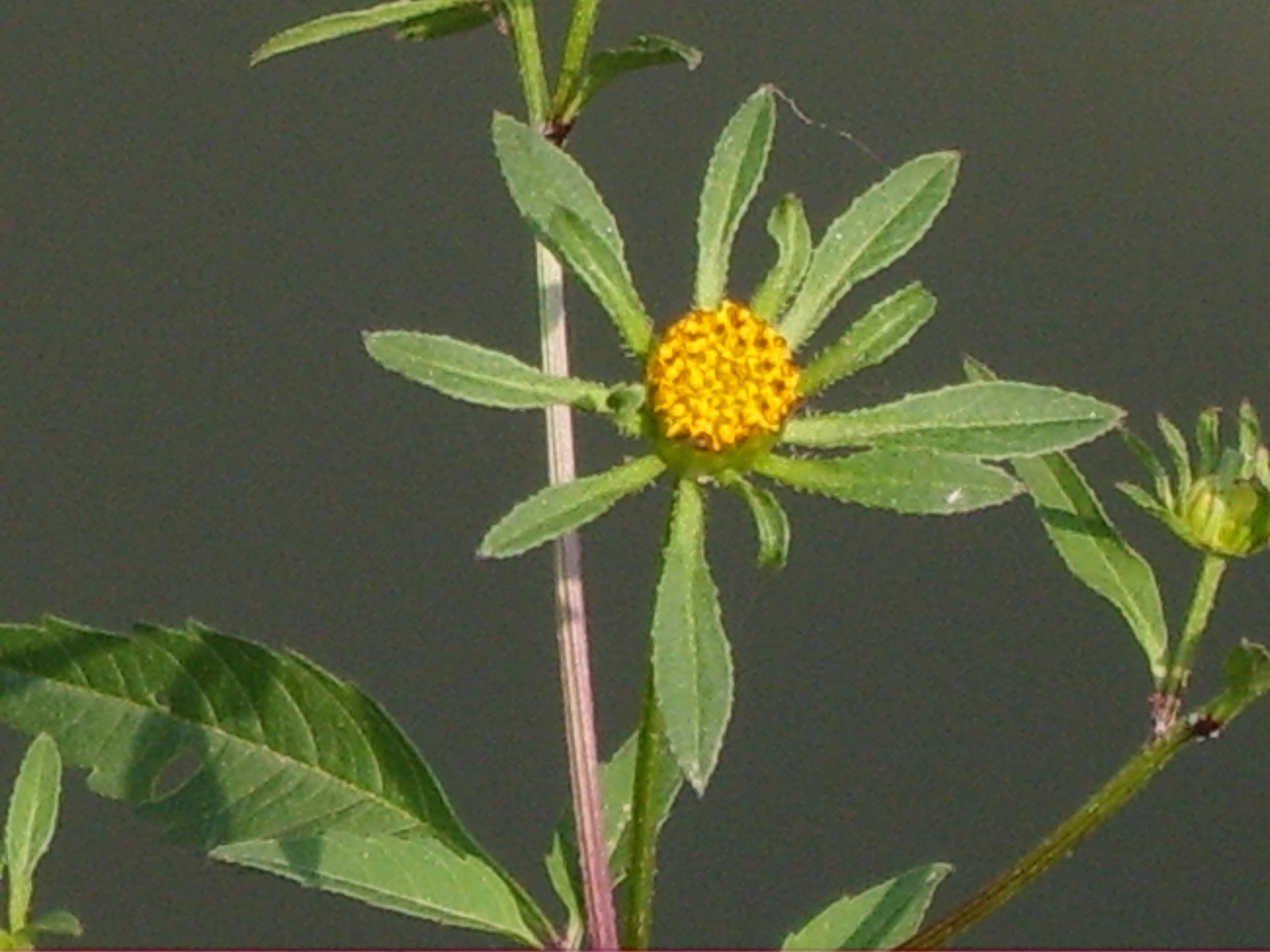 Bidens frondosa in Incheon, Korea